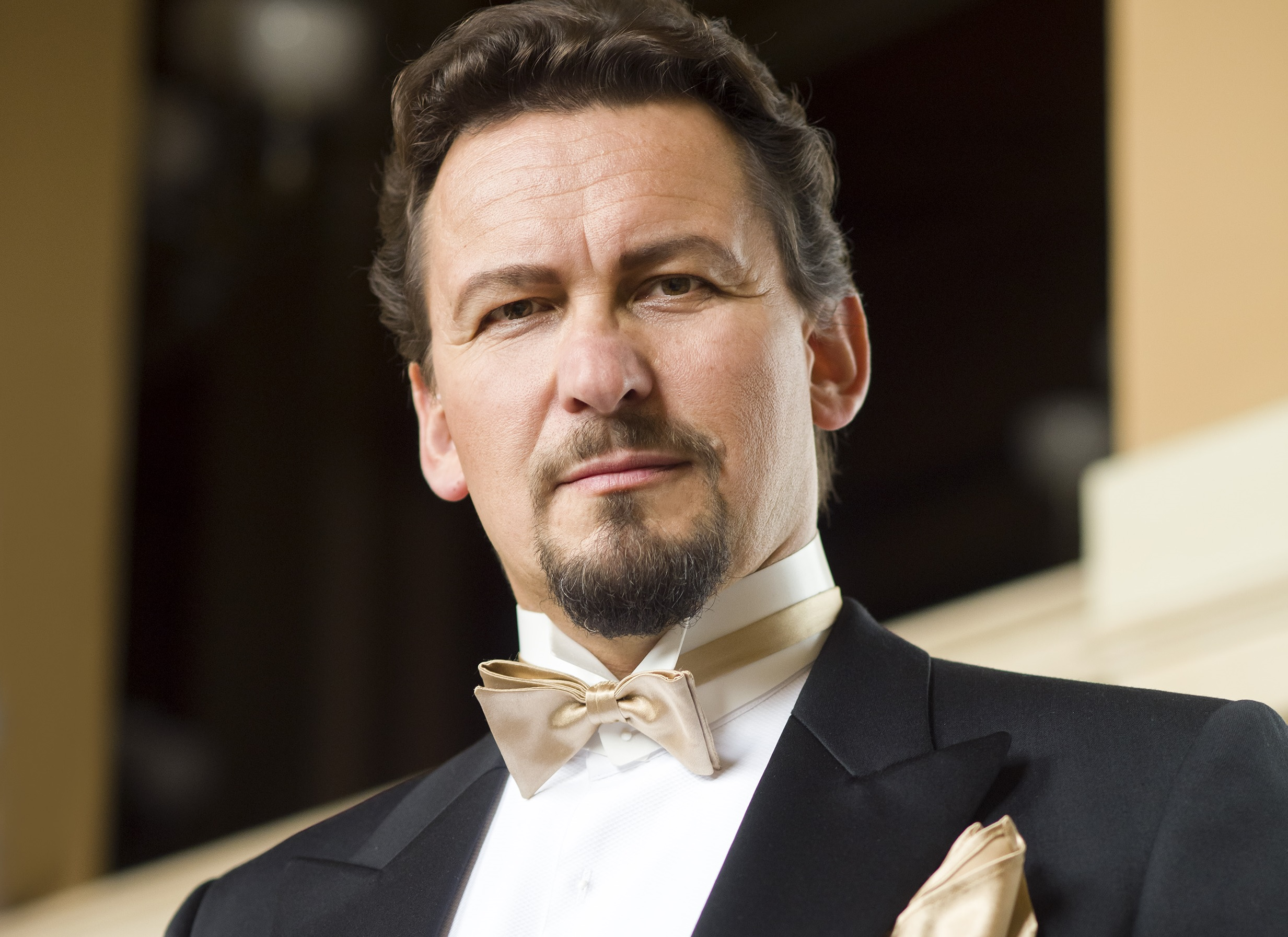 Martin Bárta, Czech baritone